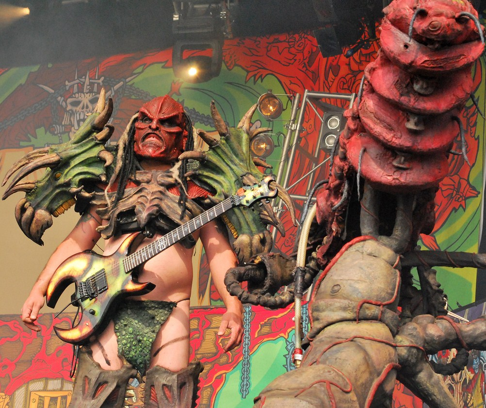 Flattus Maximus of GWAR performing live at Bloodstock 2010.